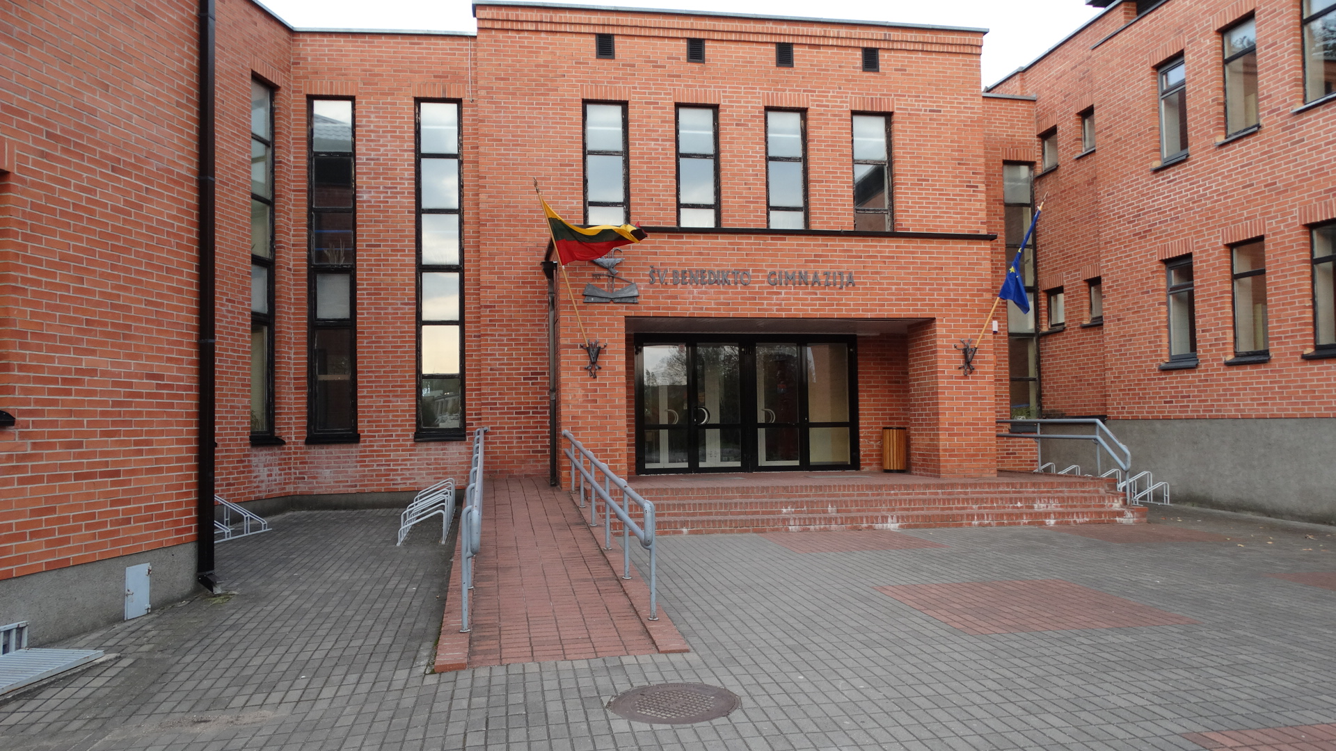 Saint Benedict Gymnasium, Alytus, Lithuania